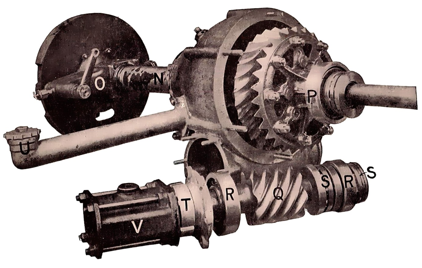 Fig. 139 Napier worm-drive axle Worm-drive rear-axle and differential for an early Napier car. Scans from 'The Book of the Motor Car', Rankin Kennedy C.E., 1912 See other images from this source in Scans from 'The Book of the Motor Car'